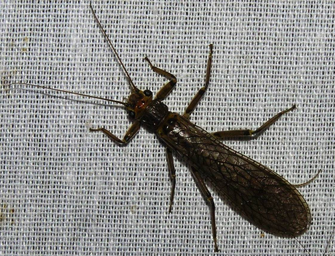 A. perplexa, female, IN: Martin Co., E Fk White River, Shoals, 6/2006.